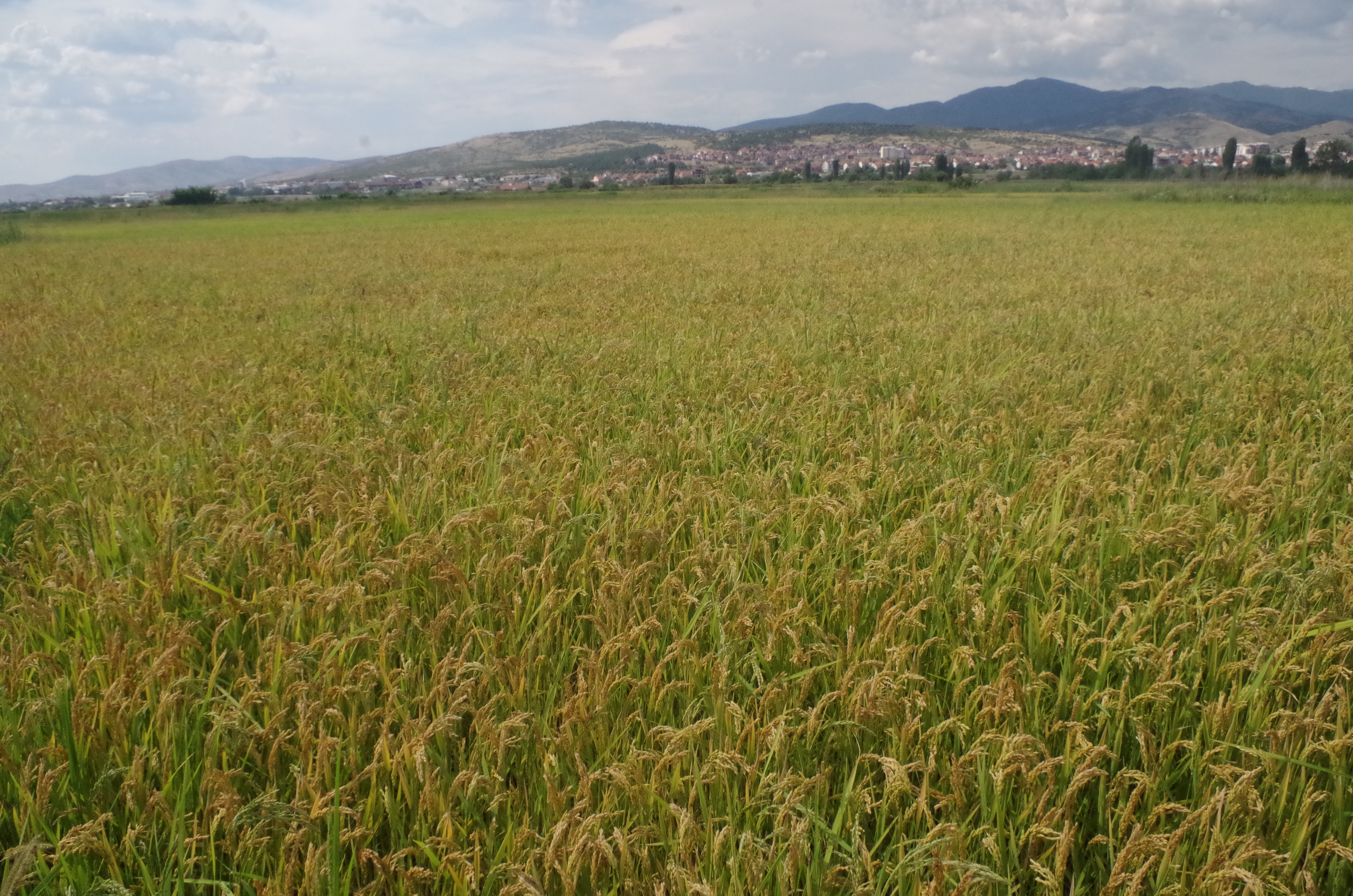 Rice fields in the region Kočani, Macedonia